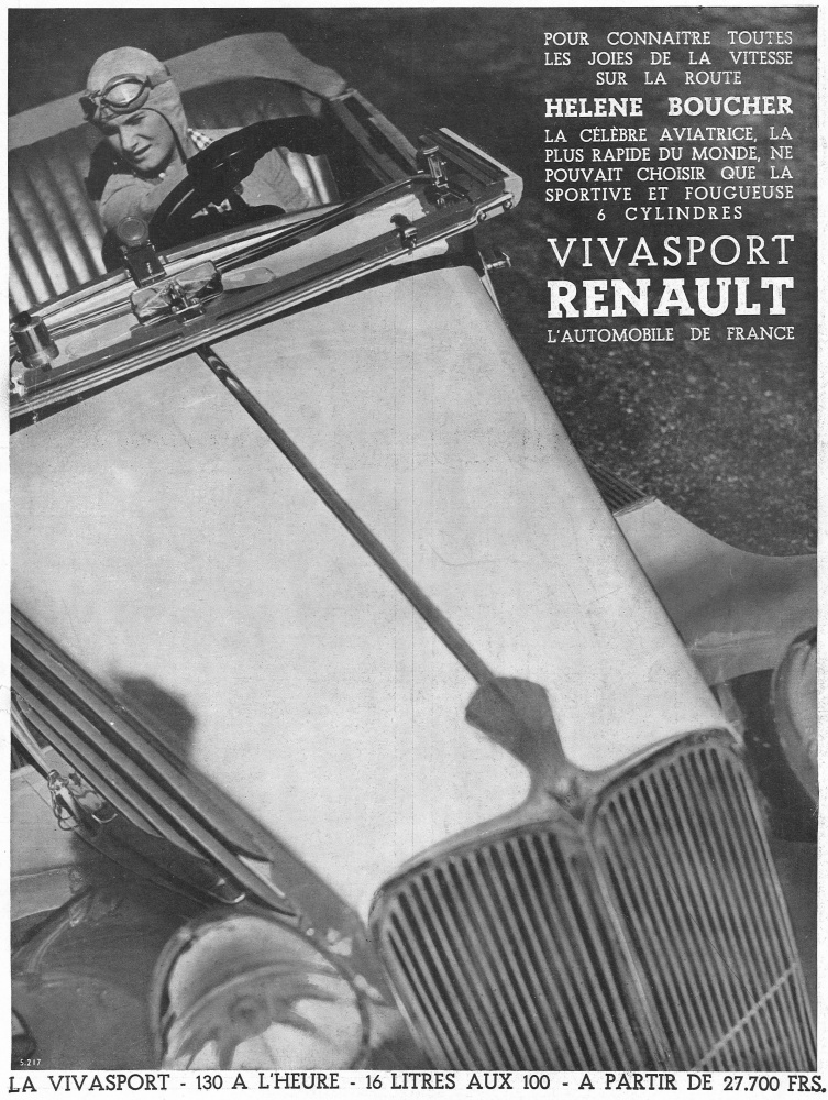 French pilot Hélène Boucher is promoting the Renault Vivasport. Advertisement of the Renault S.A.